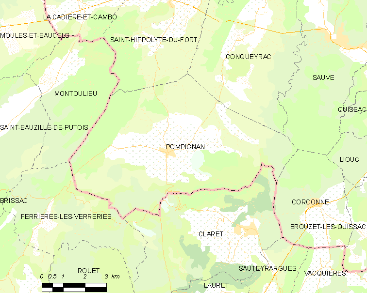 Map commune FR insee code 30200.png - Pompignan (Gard)